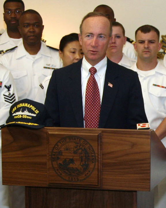 Indiana Governor Mitchell Daniels delivers his remarks during an Indianapolis proclamation reception at the state capitol building.